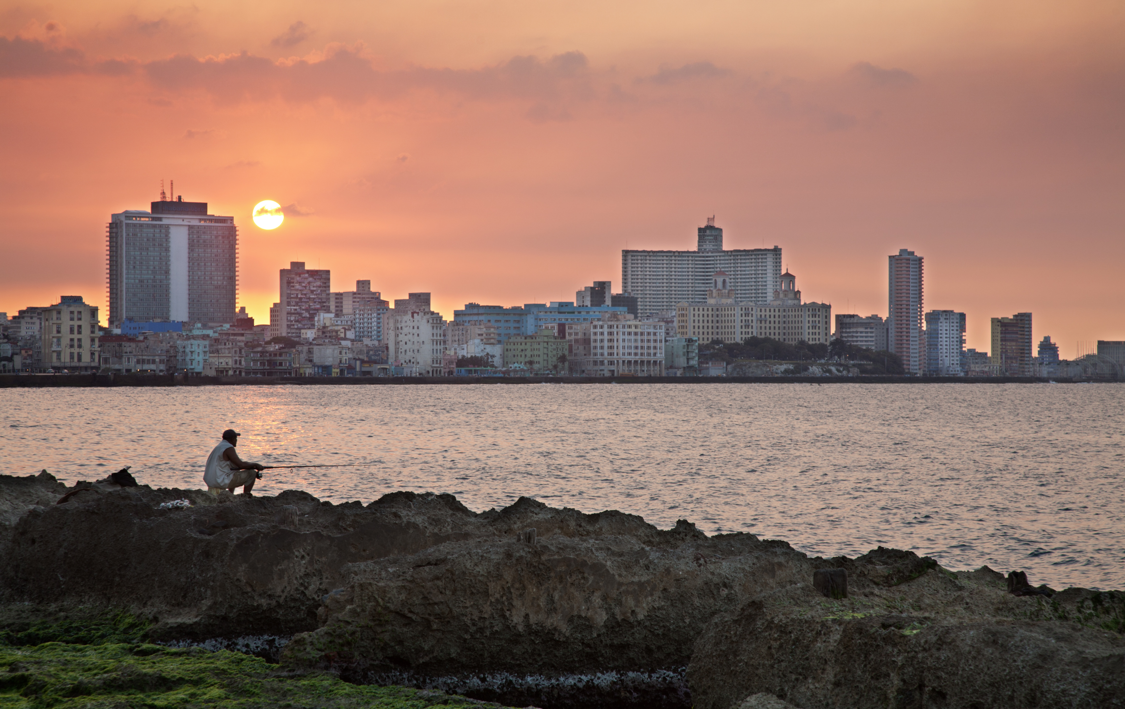 Fishing at the Malecon at sunset. At the back, the Hotel Nacional in Vedado. Havana (La Habana), Cuba